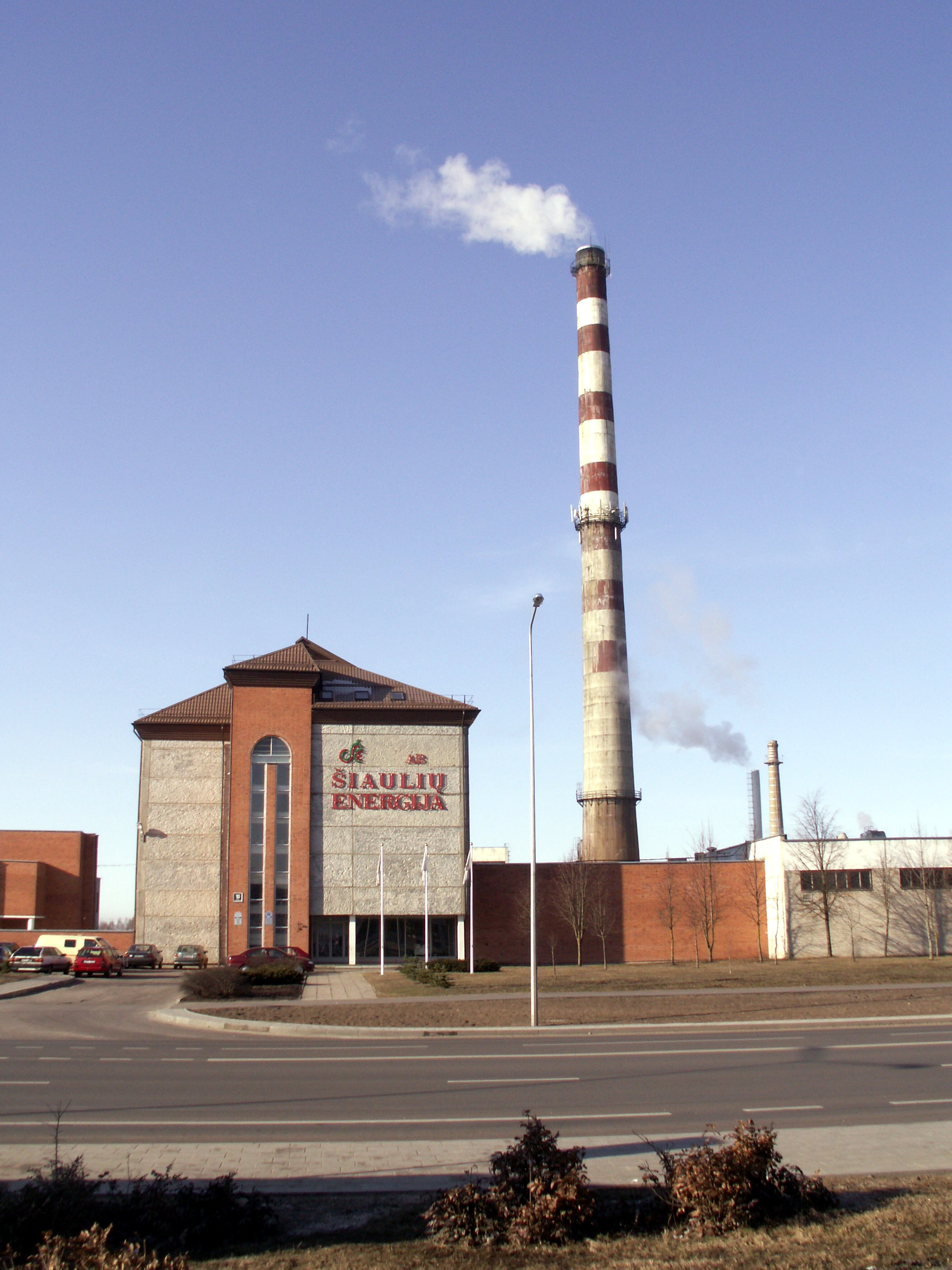 Šiaulių energija